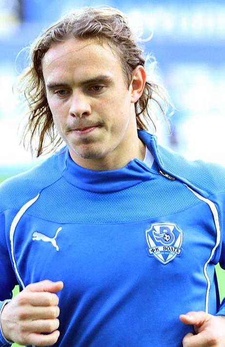 Andrei Eshchenko with FC Volga Nizhny Novgorod.